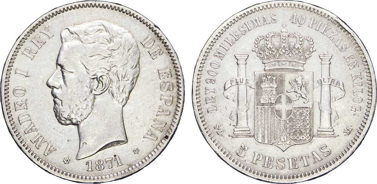 5 Pesetas à l'effigie d'Amédée Ier (1871)